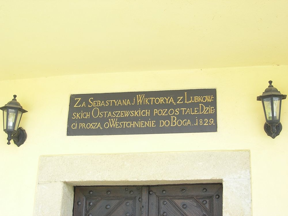 Jacmierz (Poland) - tablica nad wejsciem do kaplicy cmentarnej rodziny Ostaszewskich